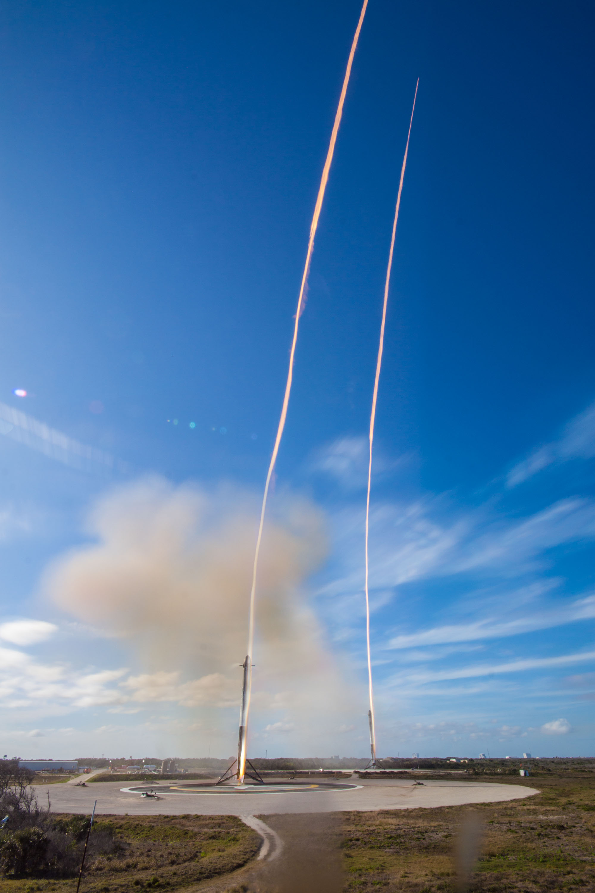 Falcon Heavy Demo Mission